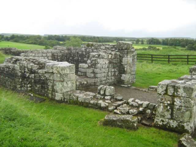 Ruins of Birdoswald Roman Fort, Cumbria